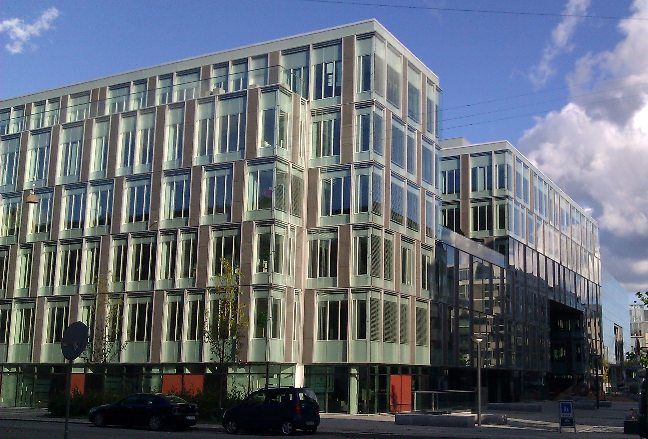 Corporate Headquarters of SimCorp at Weidekampsgade